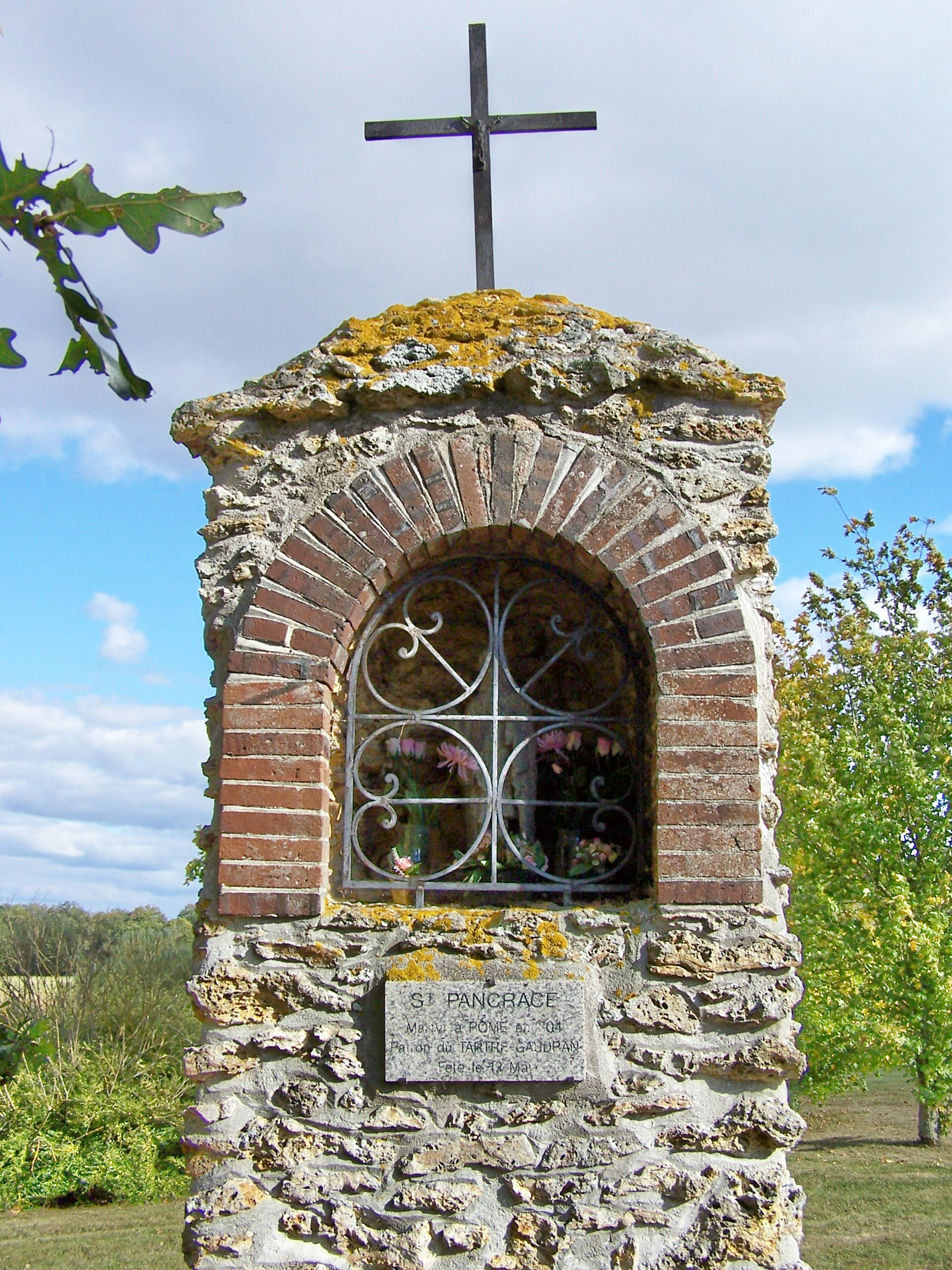 Oratory in Le Tartre-Gaudran (Yvelines, France)